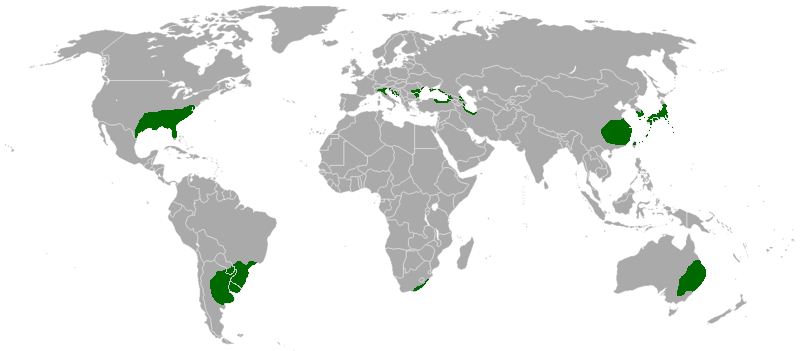 Humid subtropical climate zones of the world.